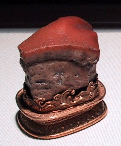 Description: Meat shaped stone from National Palace Museum